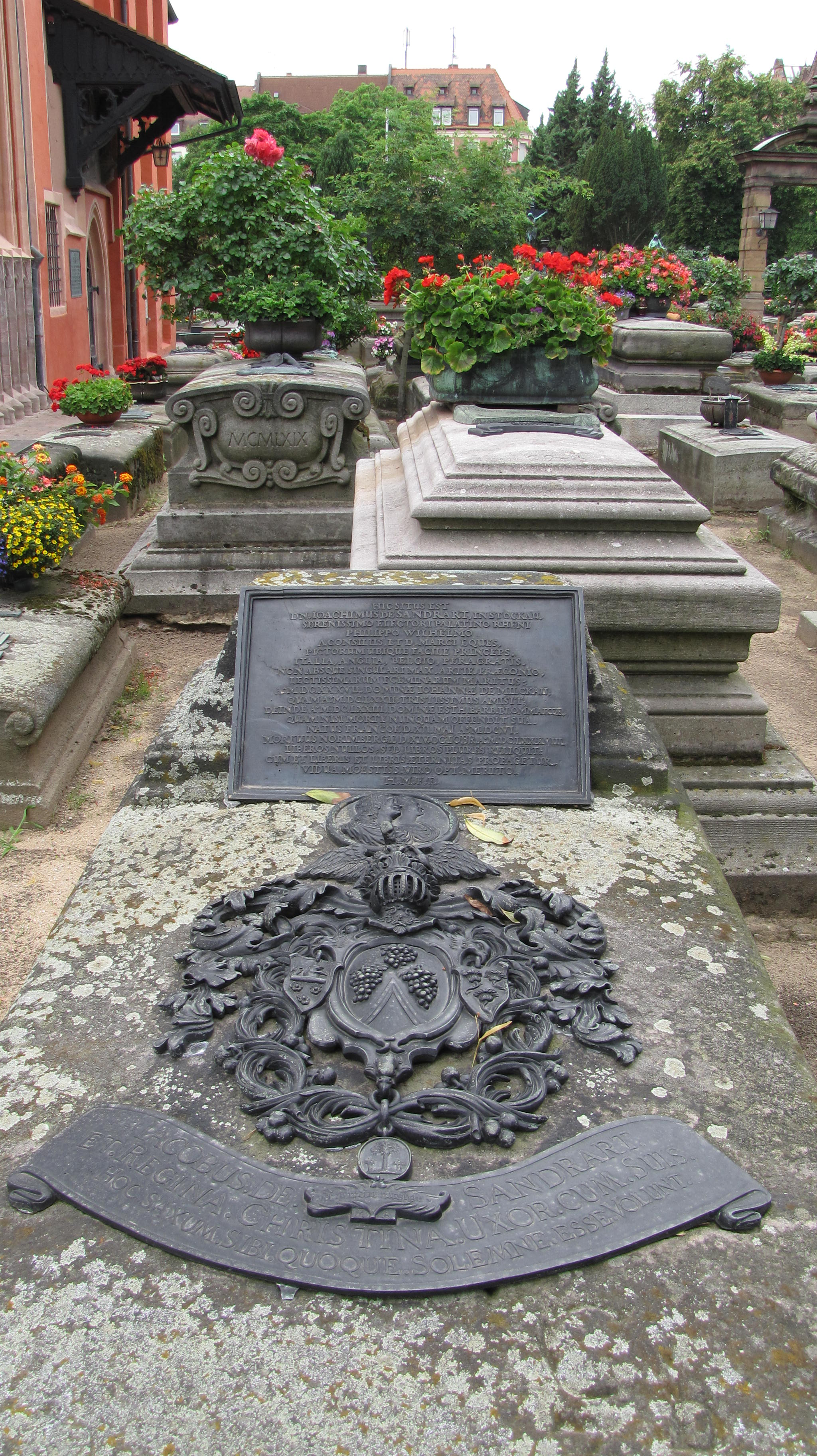 Grave of Joachim von Sandrart, St. Johannisfriedhof Nürnberg